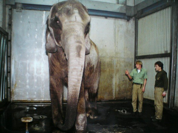 African elephant Anna with elephant keeper Dan Koehl and Gerd Kohl in Tiergarten Schönbrunn 1998